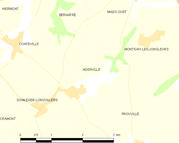 Map of French municipality Agenville